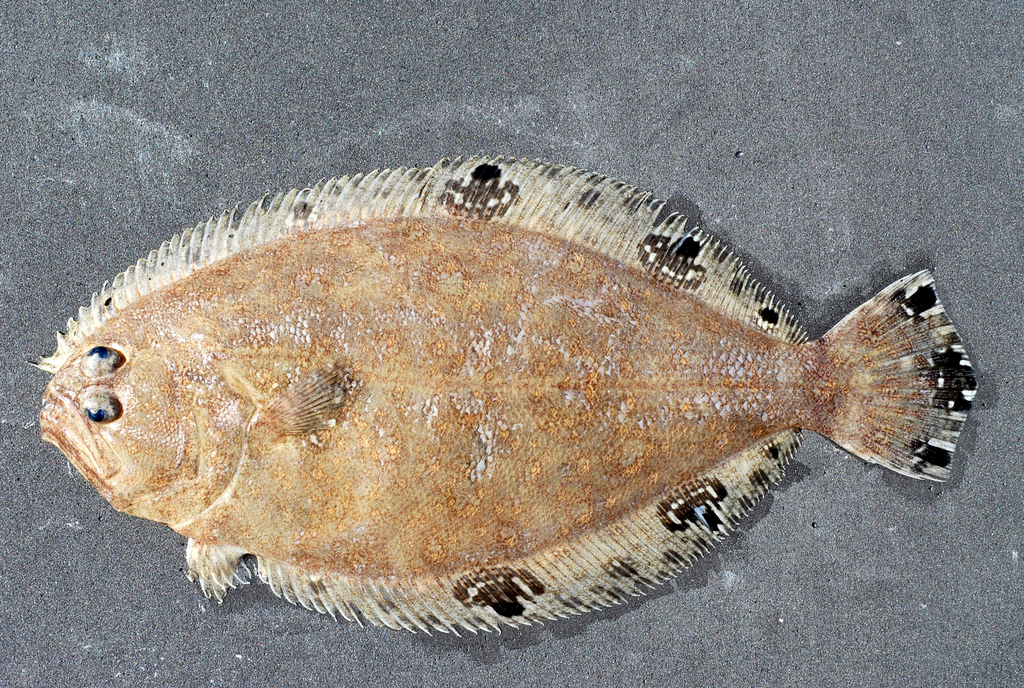 Cyclopsetta chittendeni from the Gulf of Mexico